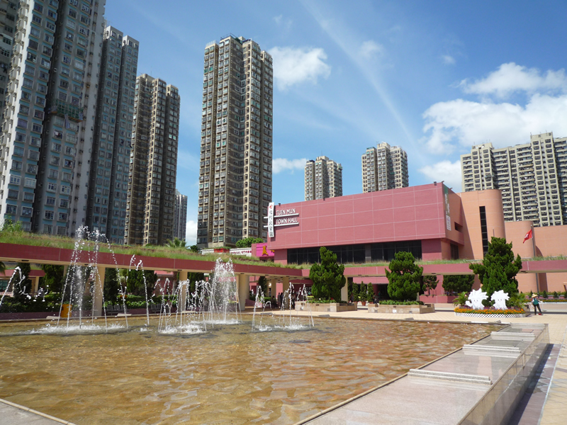 HK Tuen Mun Cultural Square